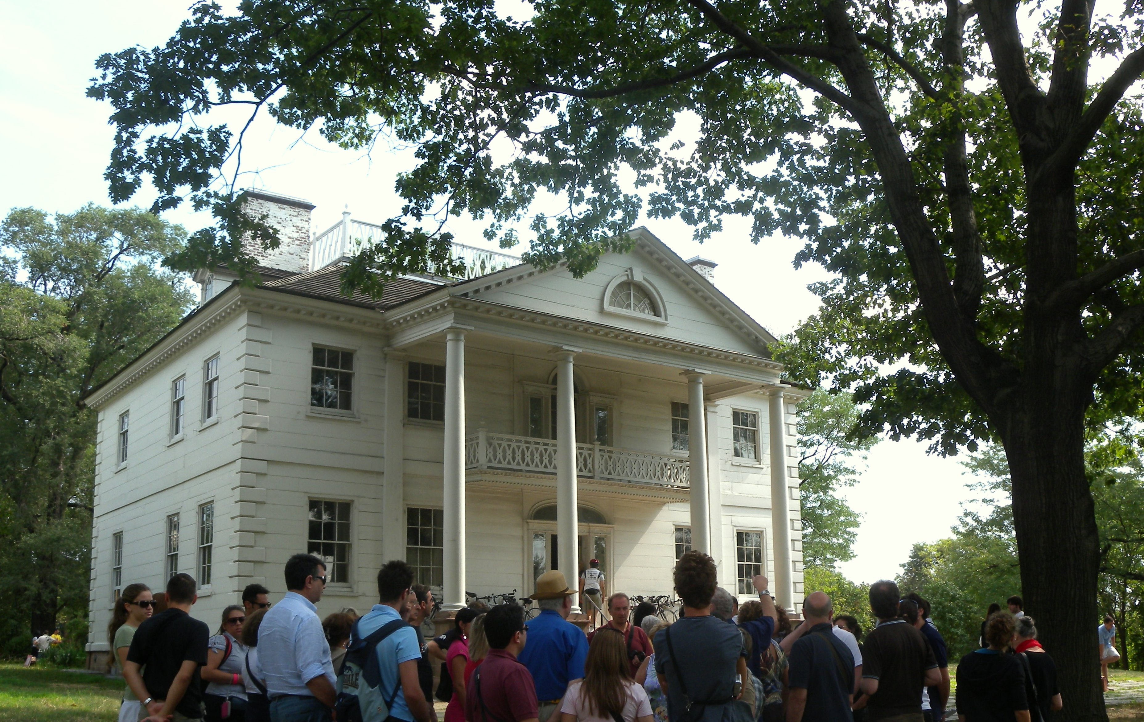 Looking northeast at tourists being lectured (in Italian) in front of the mansion on a sunny late morning.